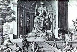 The Seven Wonders of the World (detail): Statue of Zeus at Olympia